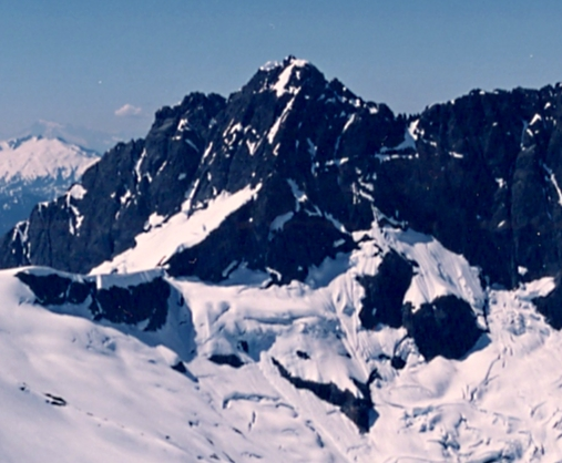 Seahpo Peak seen from Ruth Mountain in July 1991